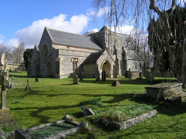 Tilshead, St Thomas a Becket, Wiltshire. I checked this several times on the map as the line appears to go through the church but hovering the mouse over the church symbol on the modern map clearly stated this square.